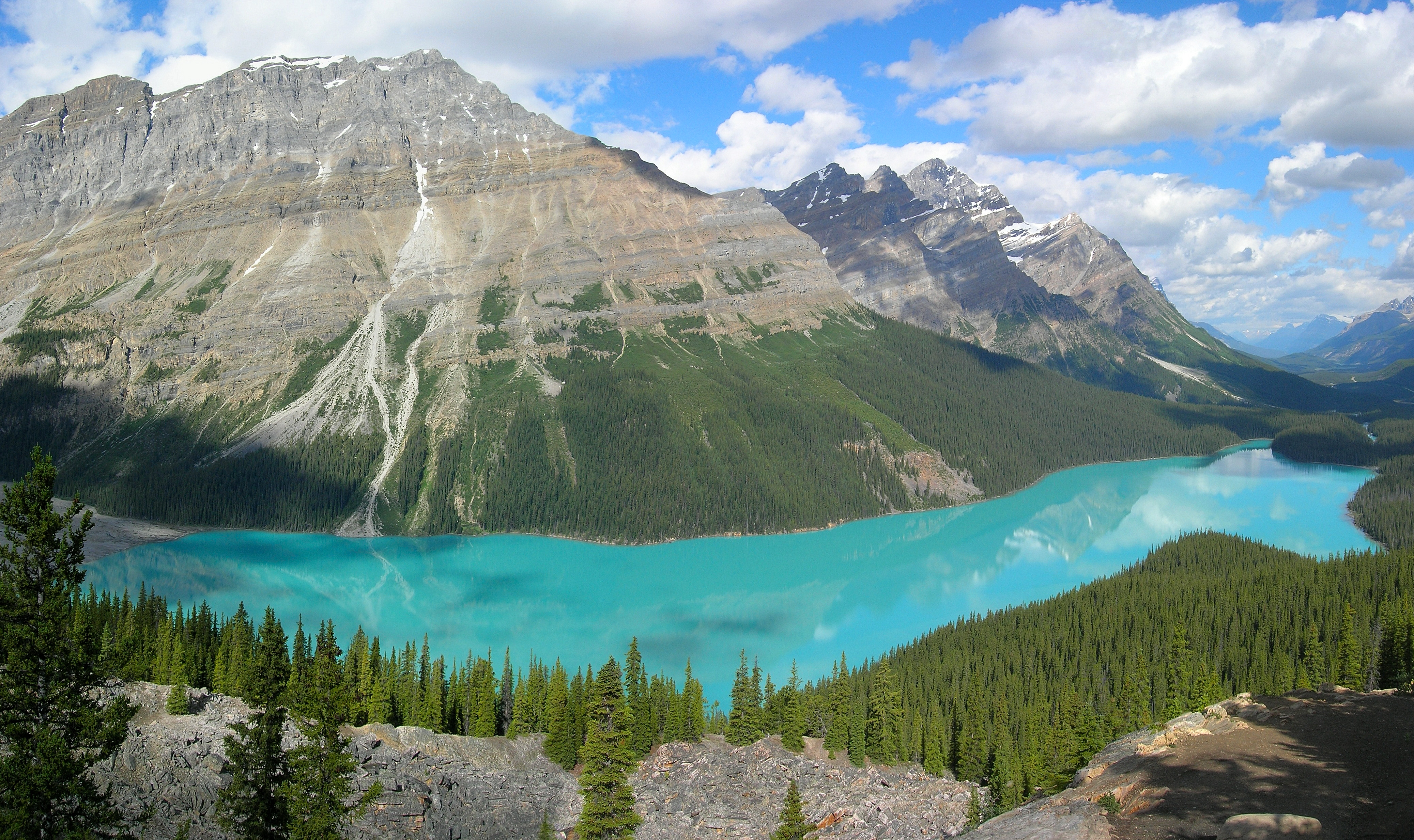 An attraction of Banff National Park in the Canadian province of Alberta: the turquoise Peyto Lake seen from a viewpoint at Icefields Parkway. This water colour is caused by glacier water, carrying what is often called 'rock flour' (tiny particles causing the water to become more opaque).